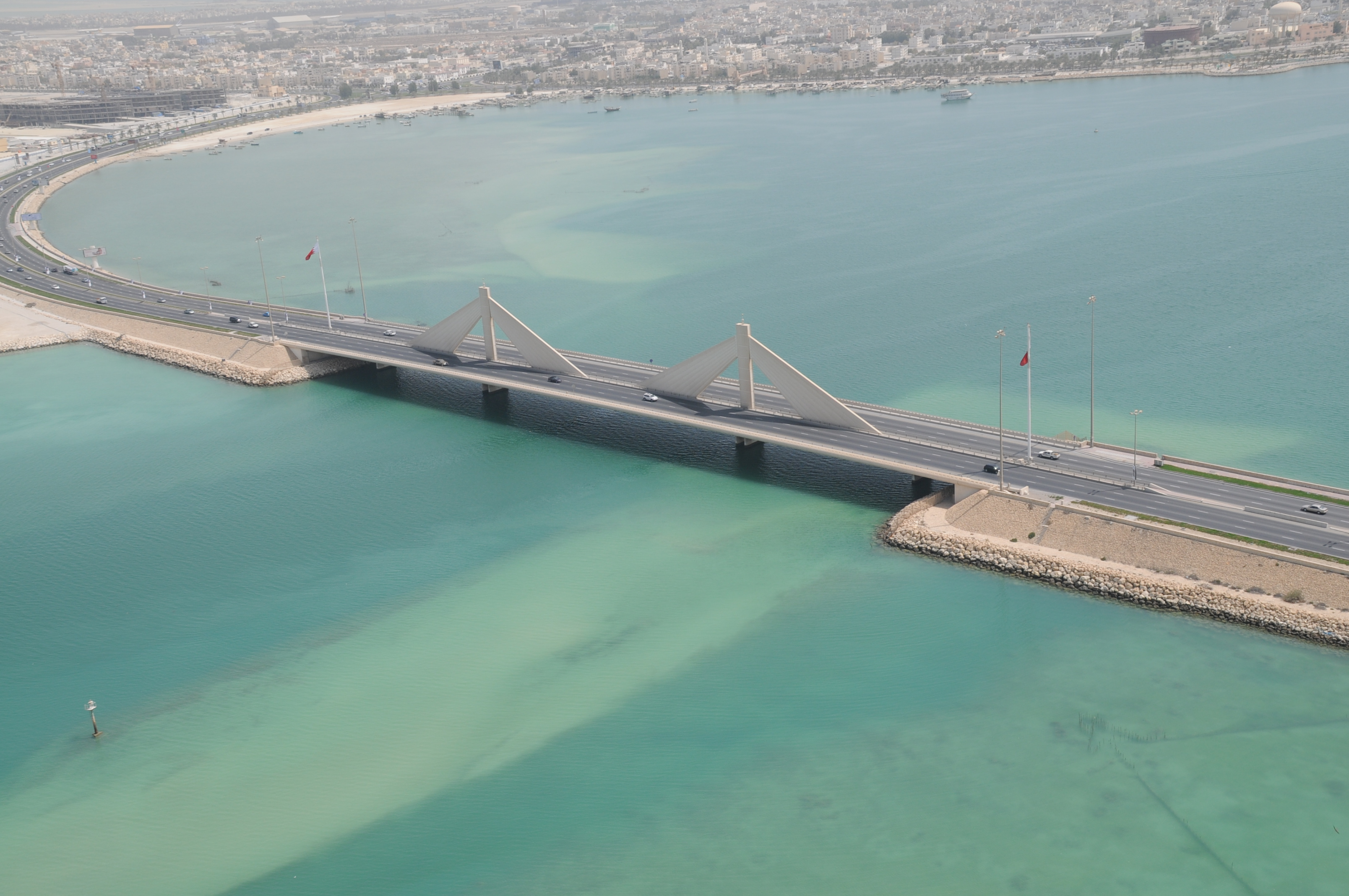 MOW_second_crossing